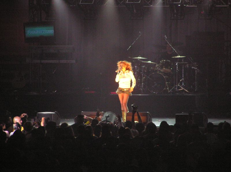 Paulina Rubio in Reventon Superestrella 2004 at the Arrowhead Pond of Anaheim.